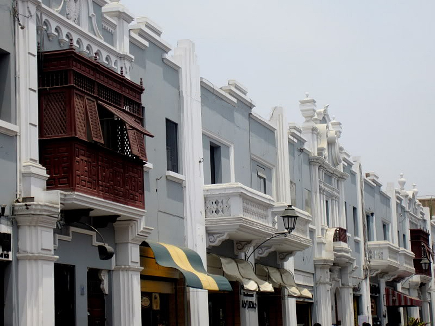 Balcones en el Paseo Pizarro